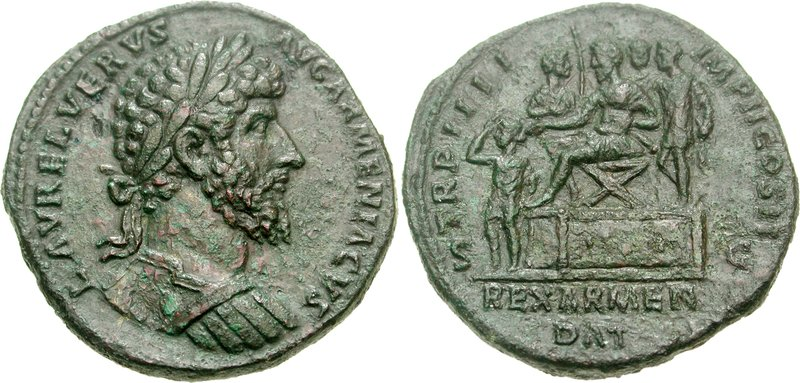 Lucius Verus. AD 161-169. Æ Sestertius (24.55 g, 11h). Rome mint. Struck AD 164. L AUREL VERUS • AUG ARMENIACUS, Laureate and cuirassed bust right, seen from behind TR P IIII IMP II COS II, REX ARMEN/DAT in two lines in exergue, Verus seated left on curule chair set on low platform, left hand on parazonium at side, extending right hand to place diadem on head of King Sohaemus, who stands left in front of platform and raises his hand to adjust diadem; in background on platform, one officer standing right, holding spear, and two officers standing left. RIC III 1371 (Aurelius); MIR 18, 92-16/35; Banti 98.